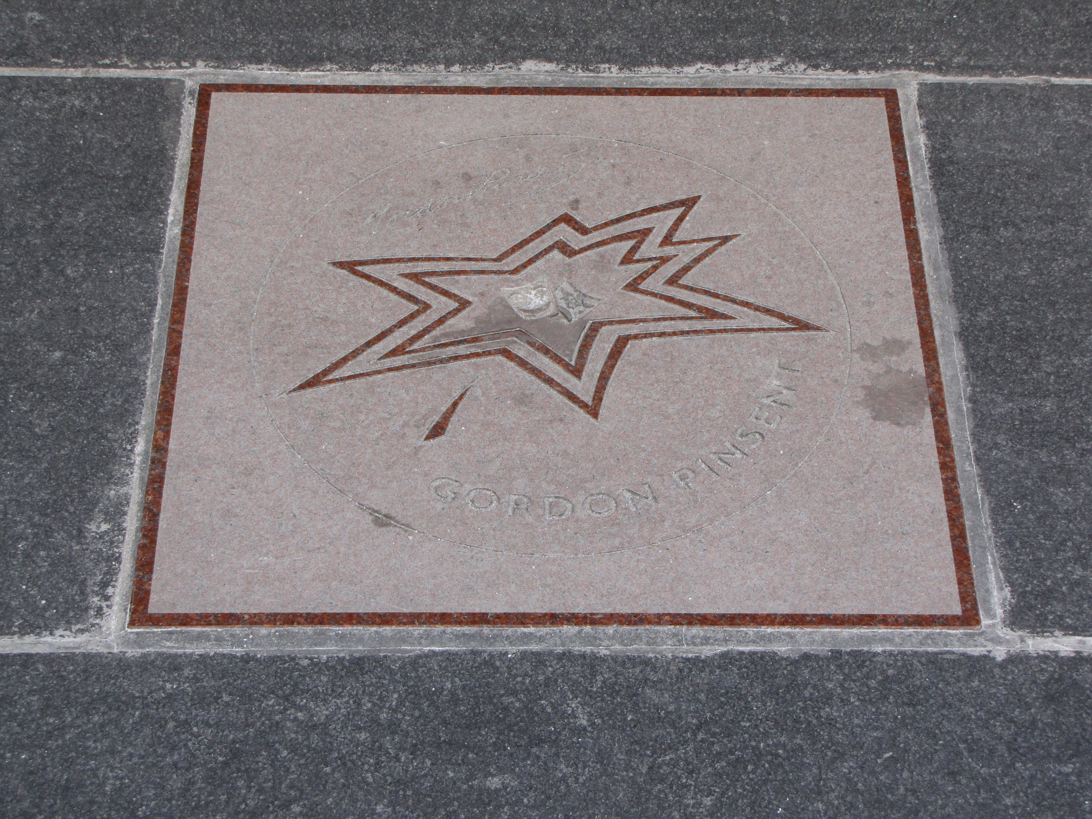 Gordon Pinsent's star on Canada's Walk of Fame